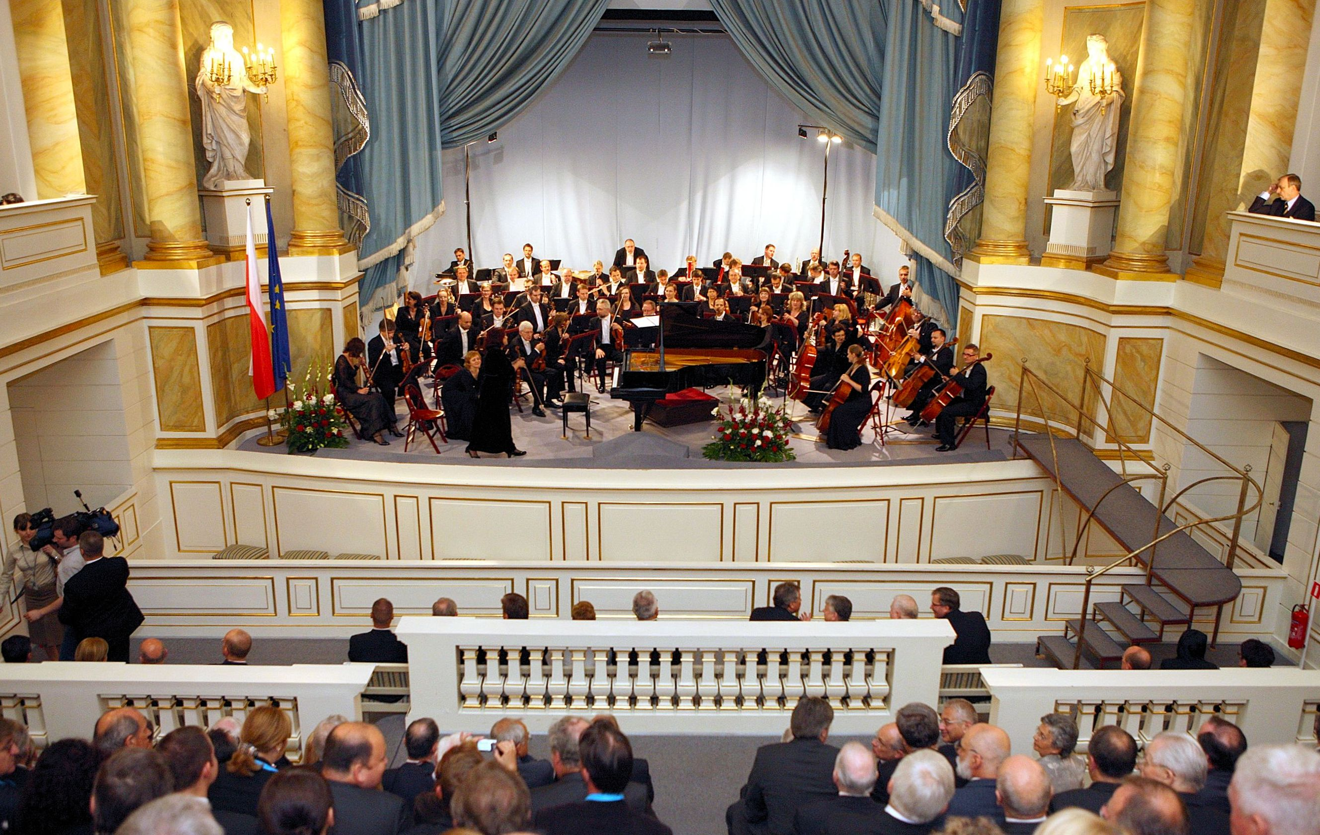 20th anniversary of the 1989 general elections. A concert by Warsaw Philharmonic Orchestra at the Court Theatre, Old Orangery in Łazienki Park in Warsaw